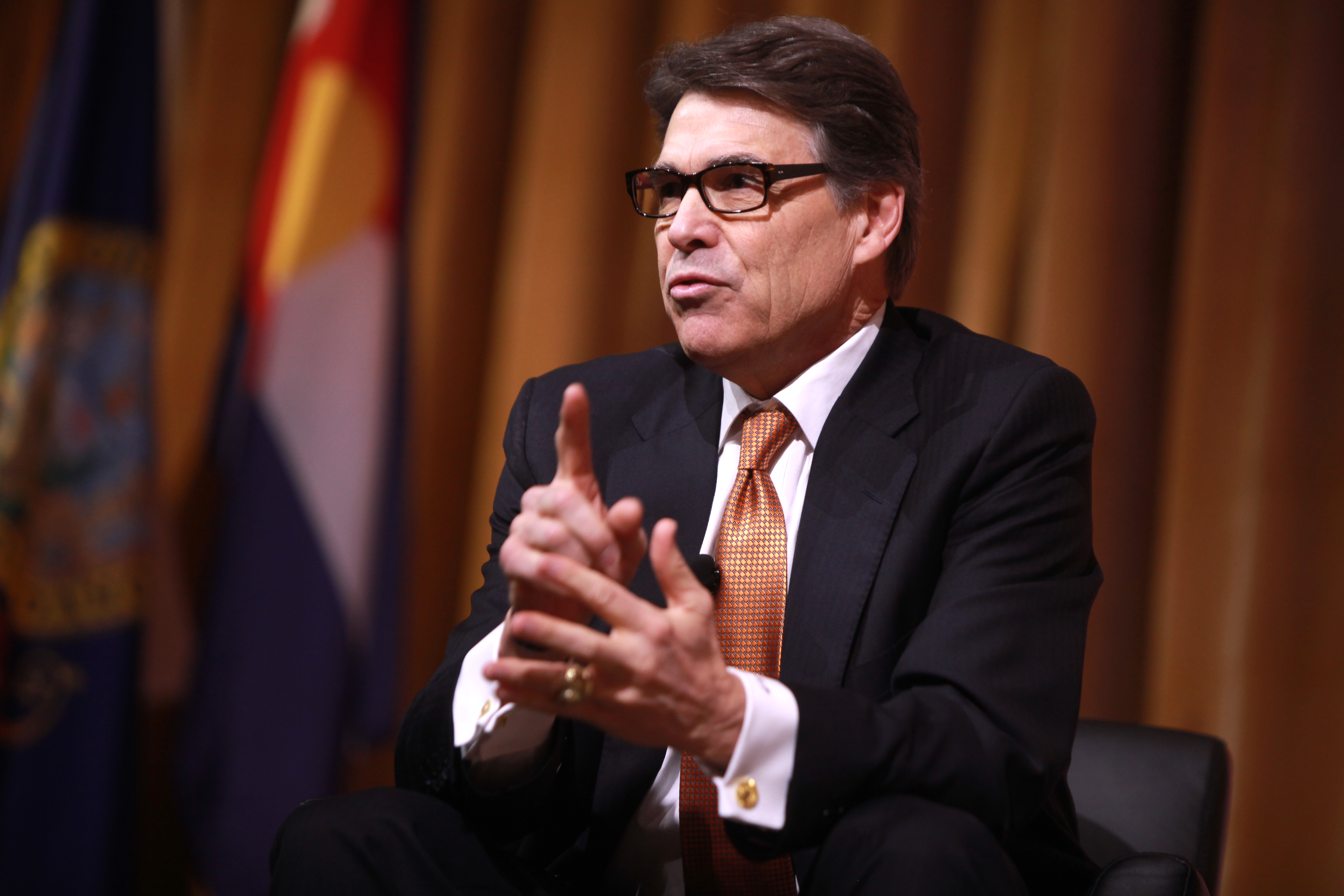 Rick Perry speaking at CPAC 2014 in Washington, DC.